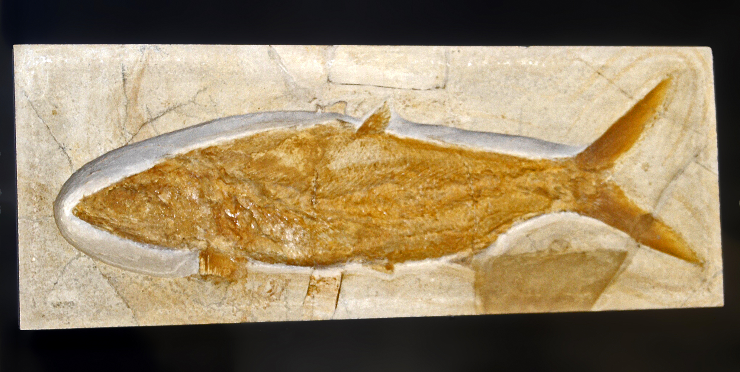 Fossil specimen of Caturus furcatus from Germany, Upper Jurassic